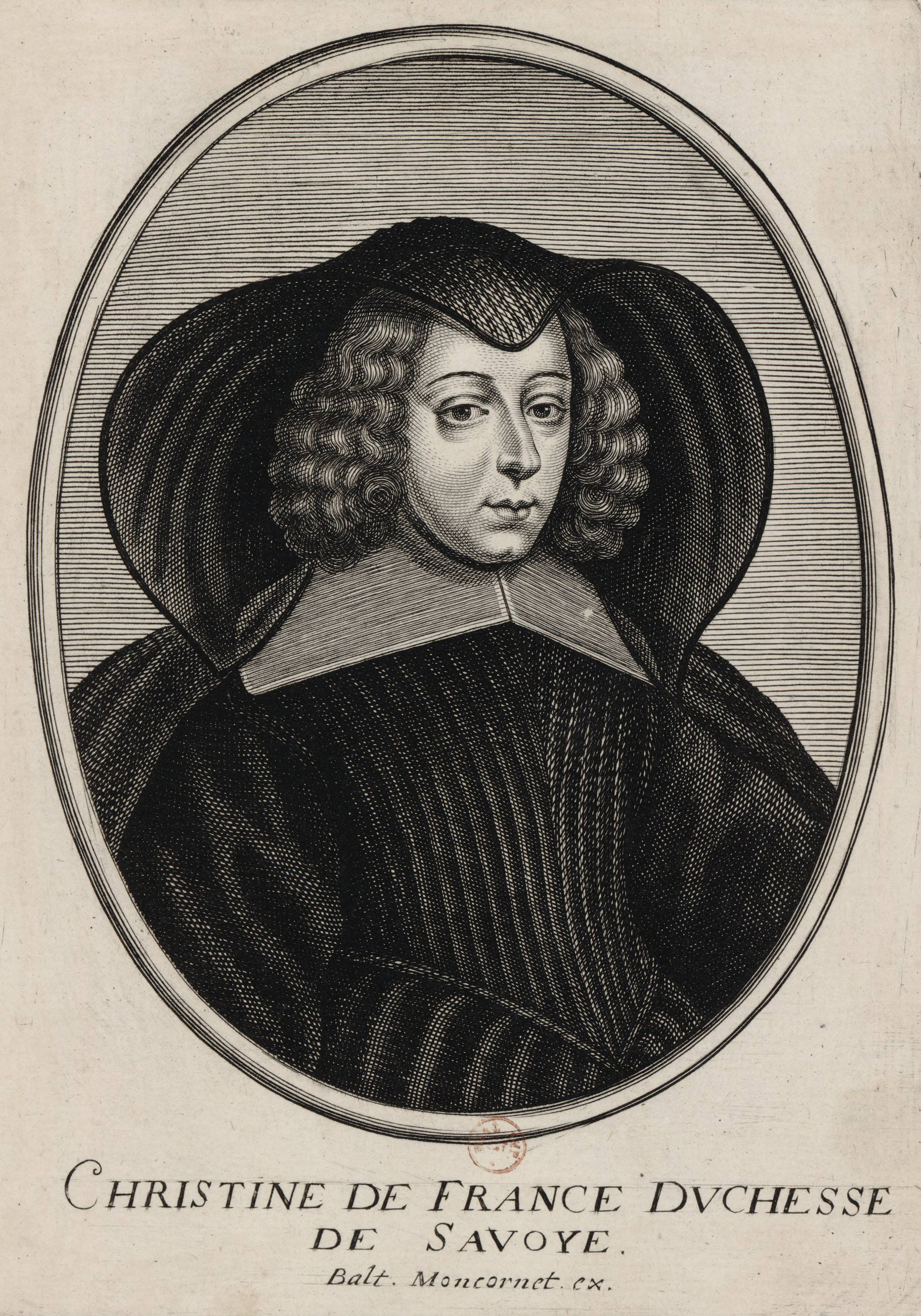 Engraved portrait of Christine of France as widow